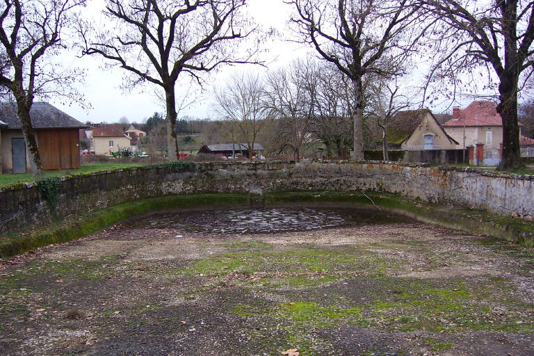 Watering place digged on the fair place in town Assier in France.